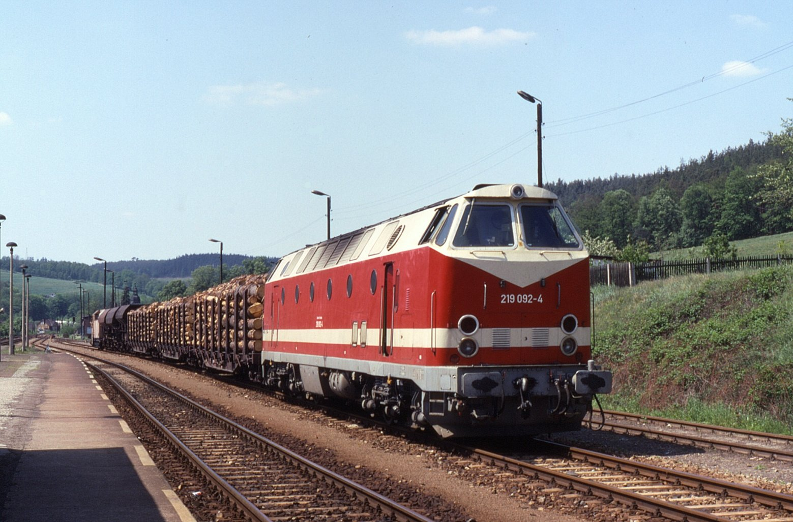 219.092 at Rottenbach (Thüringen) on a train of logs taken on 17 May 1993.